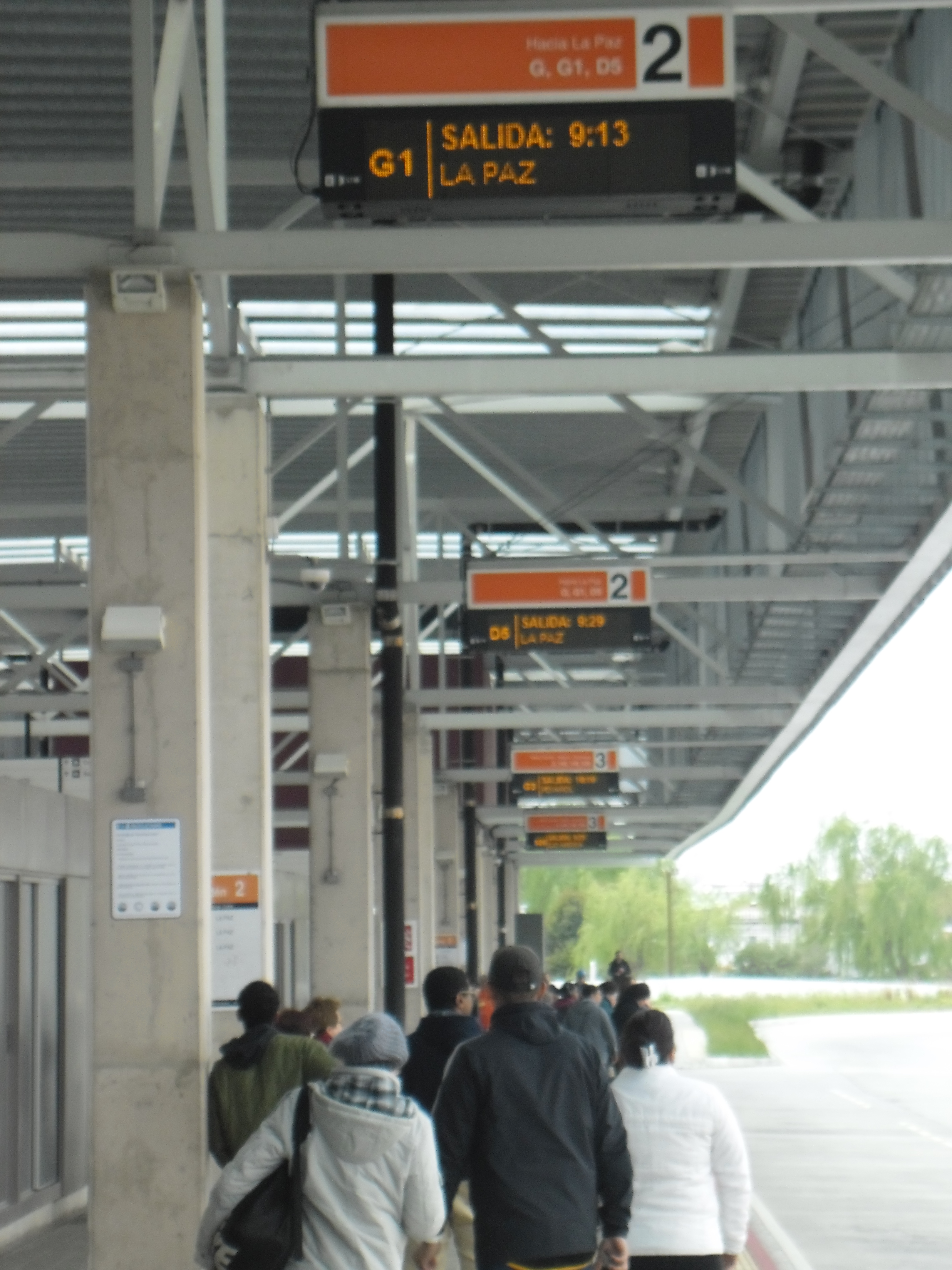 Cartel Led Andén 2 de la Terminal Colón